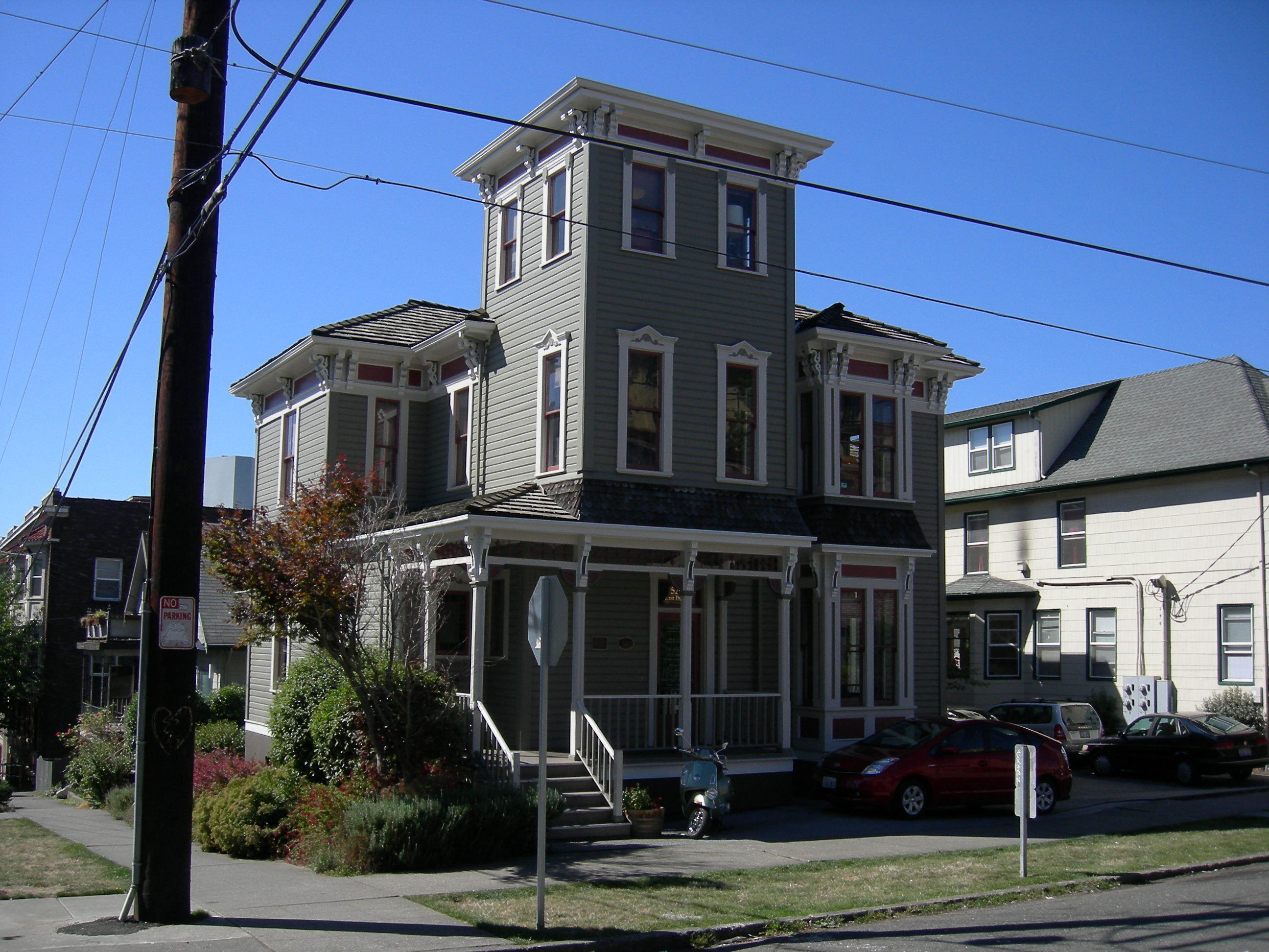 Ward House, 520 E. Denny Way, Capitol Hill, Seattle, Washington, USA, once (wrongly) believed to be the oldest existing house in Seattle (circa 1882), listed on the National Register of Historic Places, ID #72001277; also listed as a Seattle City landmark. Now professional offices. mainly law offices. The building was originally few blocks southwest at 1427 Boren Ave on First Hill, and was vacant after 1974; it was moved to its current location April 6, 1986. for some further information (although they get the address slightly wrong, 522 rather than 520).